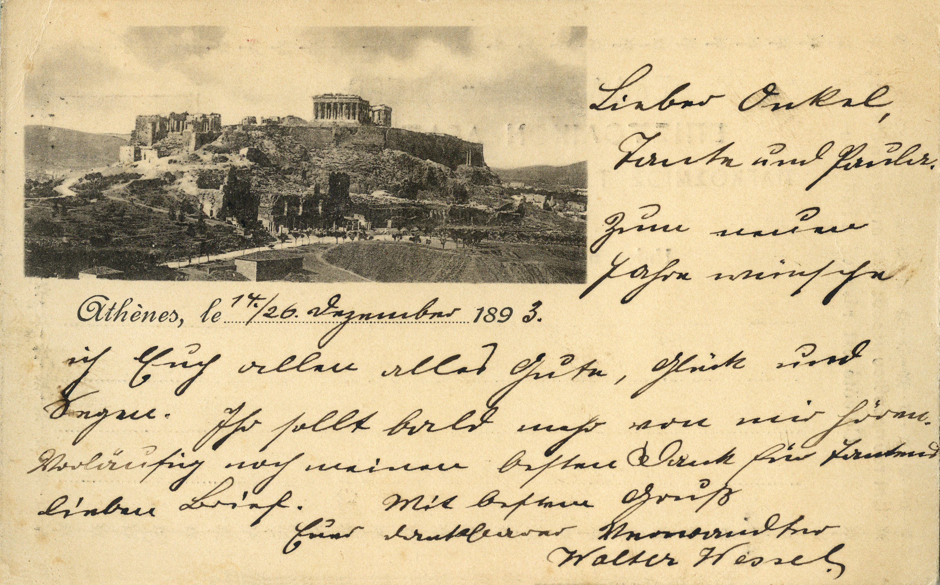 The oldest known Greek postcard, depicting the Acropolis of Athens. The postcard was posted on 14 December 1893 from Athens.